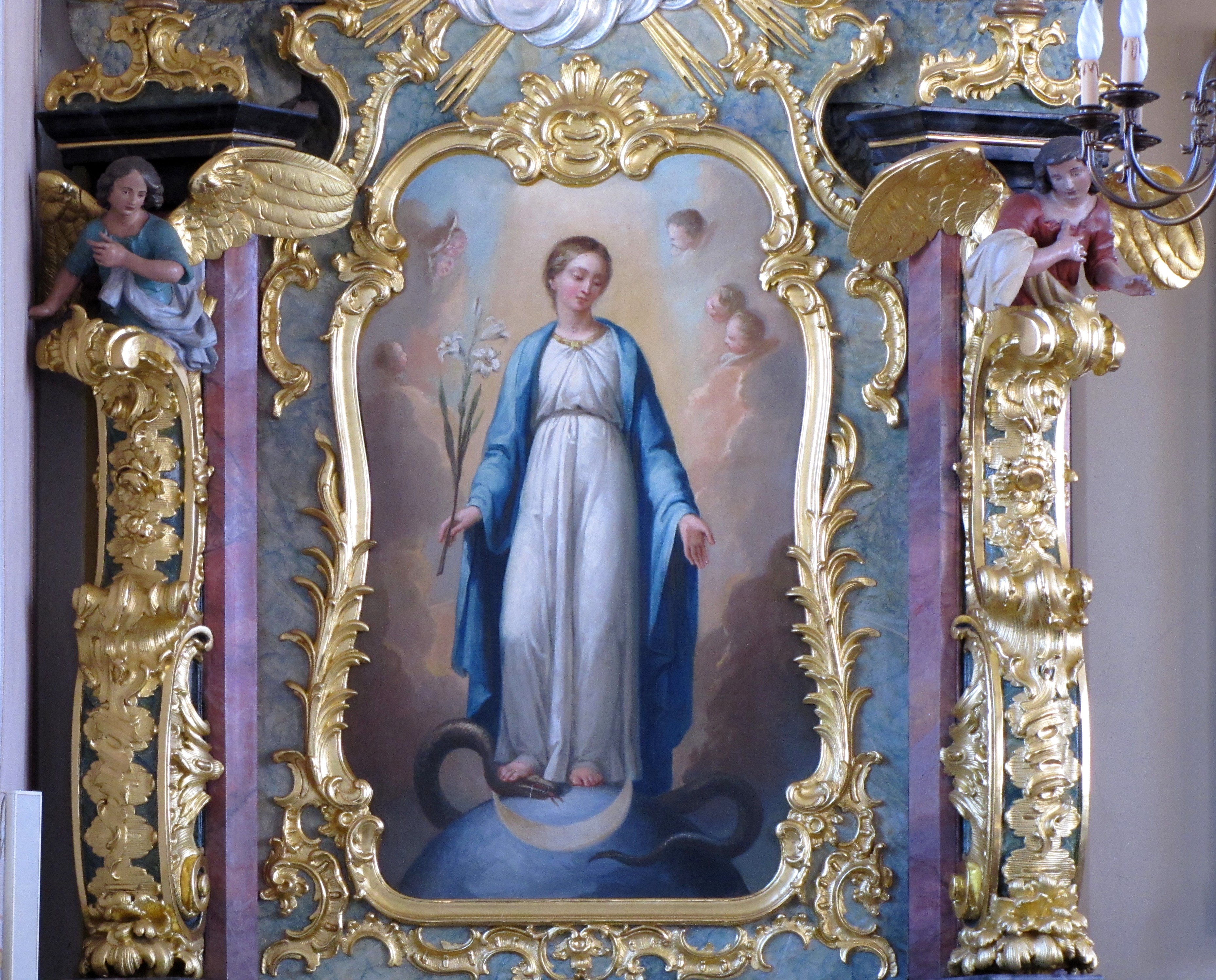 Alsace, Bas-Rhin, Wintershouse, Église Saint-Georges (IA00061835). Autel secondaire de la Vierge (XVIIIe): Tableau "Immaculée Conception" (Michel OSTER, huile sur toile, 160x110, XIXe). This object is classé Monument Historique in the base Palissy, database of the French furniture patrimony of the French ministry of culture, under the references PM67000454 and IM67002002.